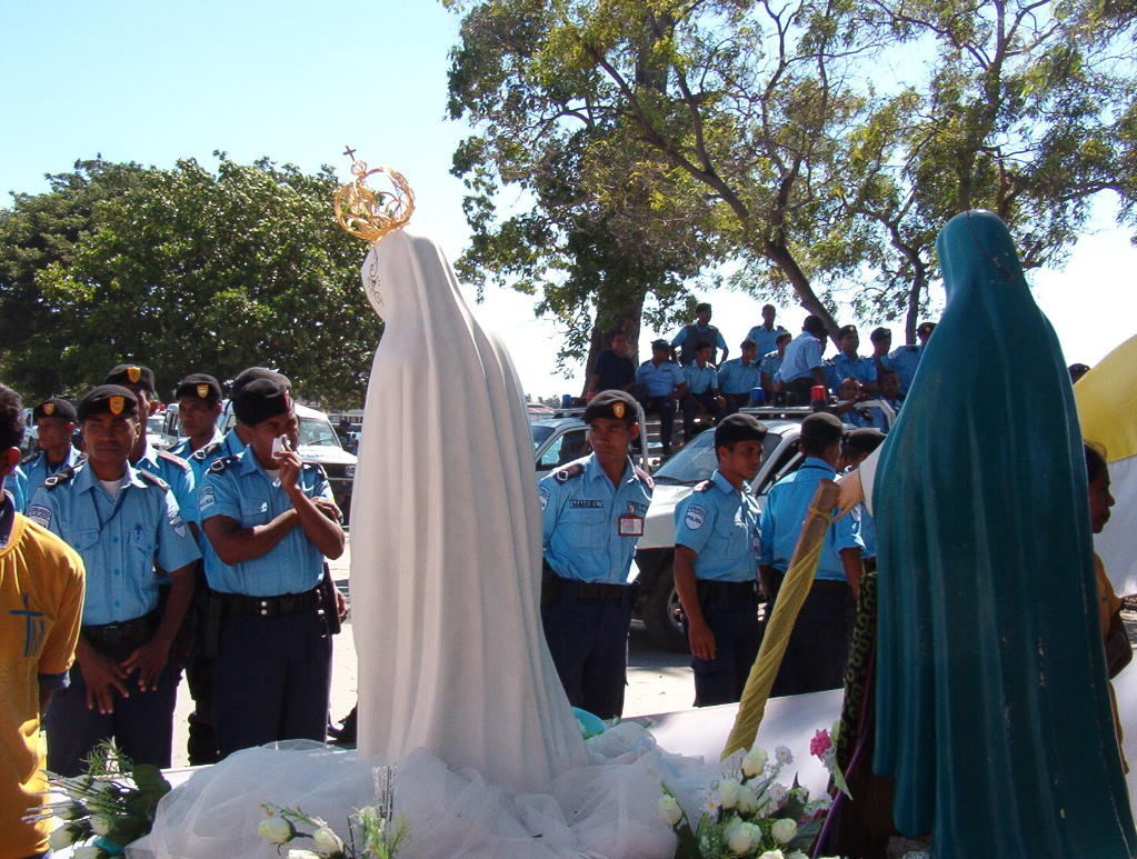 Dili/East Timor Policemen making sure there's no trouble at the demonstrations. And two statues of Virgin Mary, brought from different provinces.